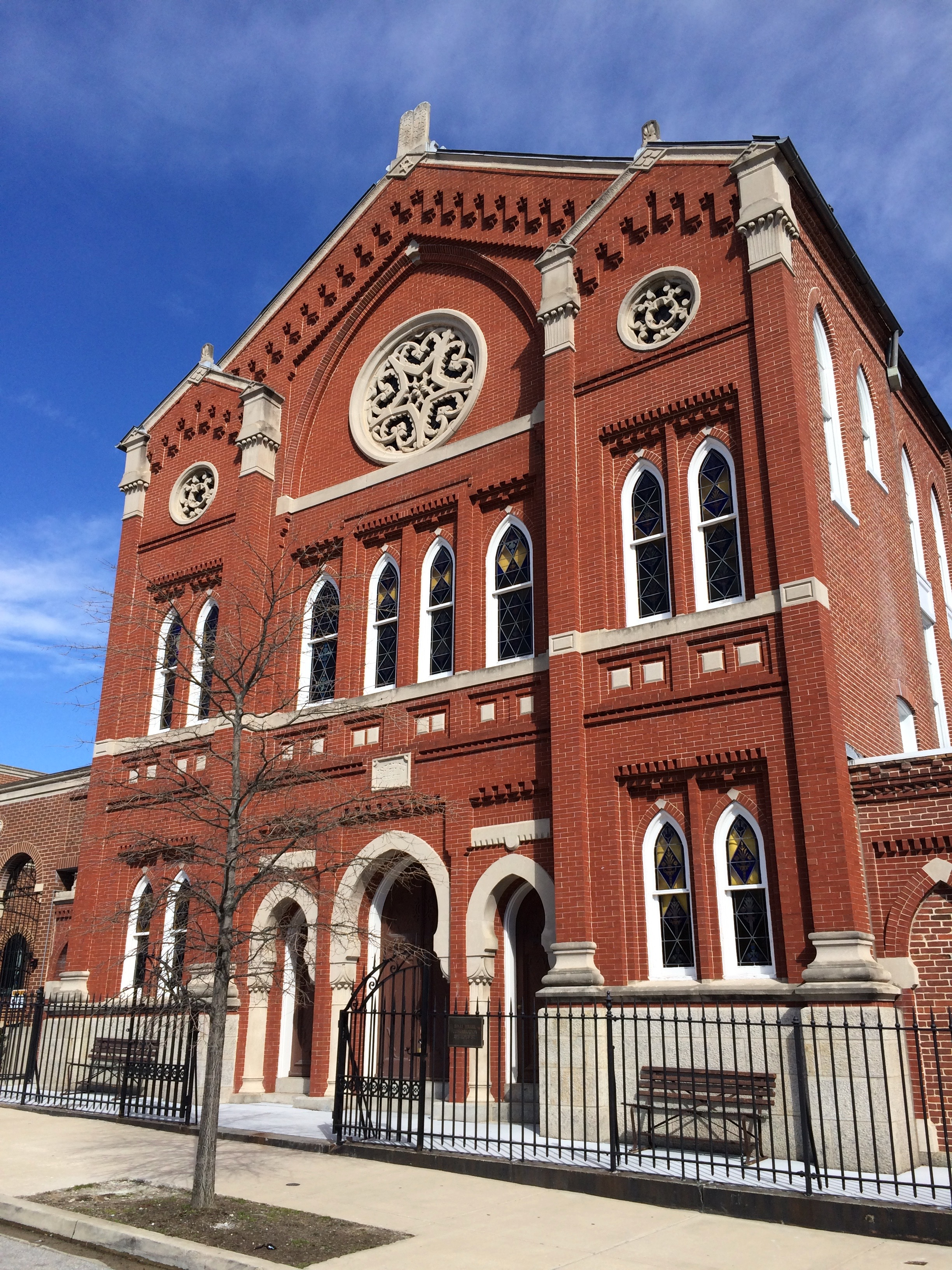 Photograph by Eli Pousson, 2017 February 20.